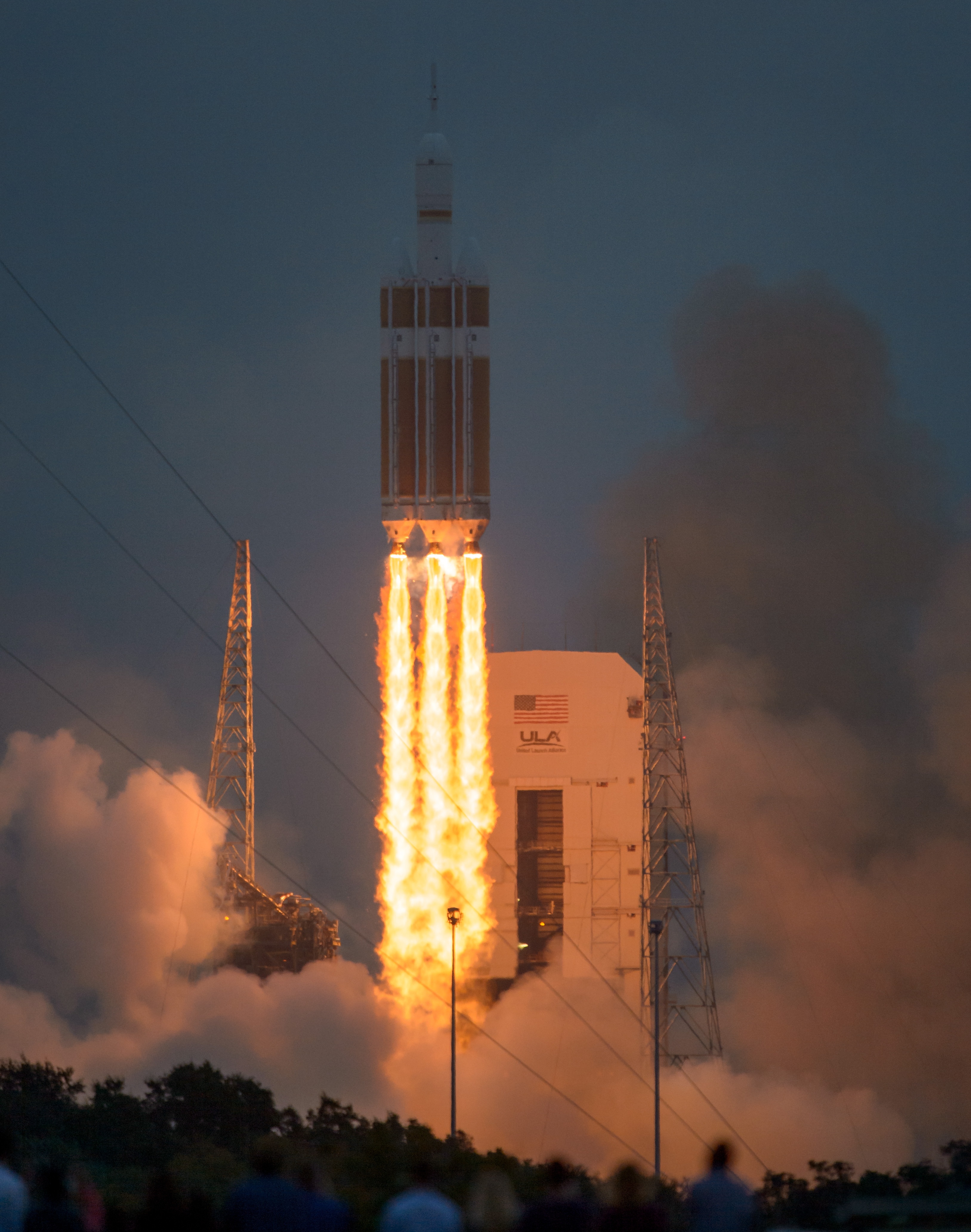 The United Launch Alliance Delta IV Heavy rocket with NASA’s Orion spacecraft mounted atop, lifts off from Cape Canaveral Air Force Station's Space Launch Complex 37 at at 7:05 a.m. EST, Friday, Dec. 5, 2014, in Florida. The Orion spacecraft will orbit Earth twice, reaching an altitude of approximately 3,600 miles above Earth before landing in the Pacific Ocean. No one is aboard Orion for this flight test, but the spacecraft is designed to allow us to journey to destinations never before visited by humans, including an asteroid and Mars.